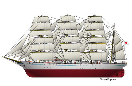 Drawing of the Japanese sailing ship Kaiwo Maru